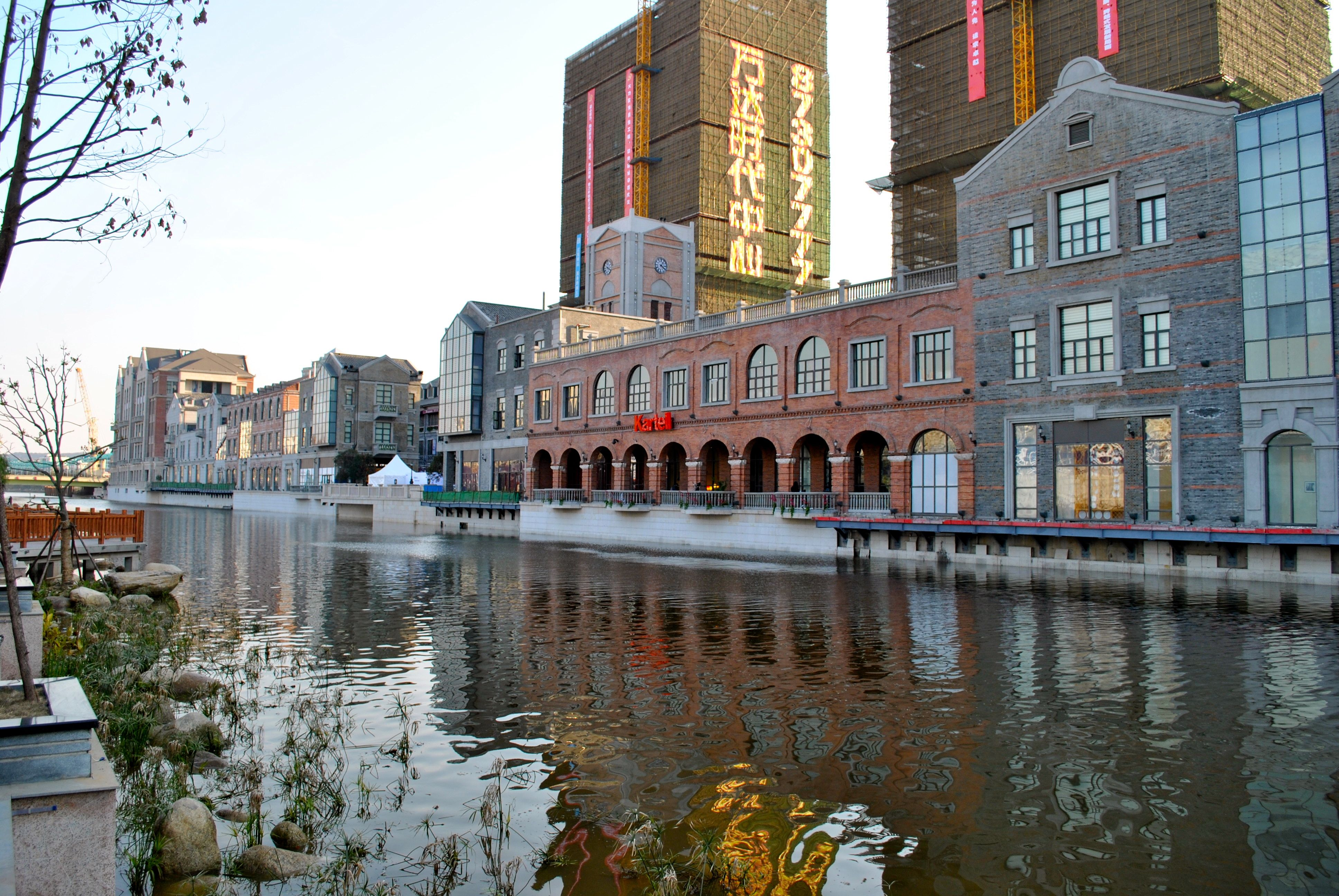 Chuhe Hanjie looking from across the river.